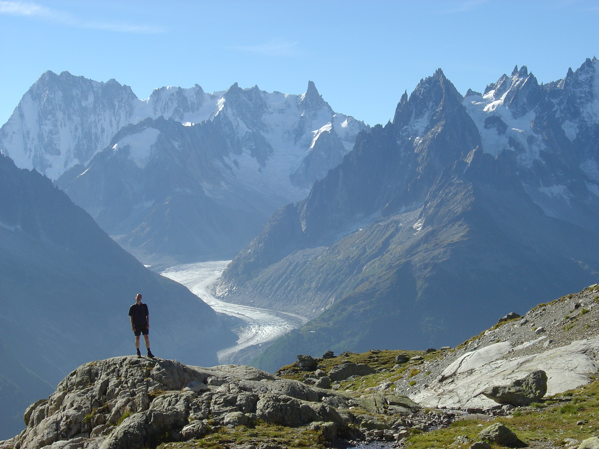 Mer de Glace glacier on the French side of the Mt Blanc massif. Grandes Jorasses, Rochefort ridge and Dent du Geant in background